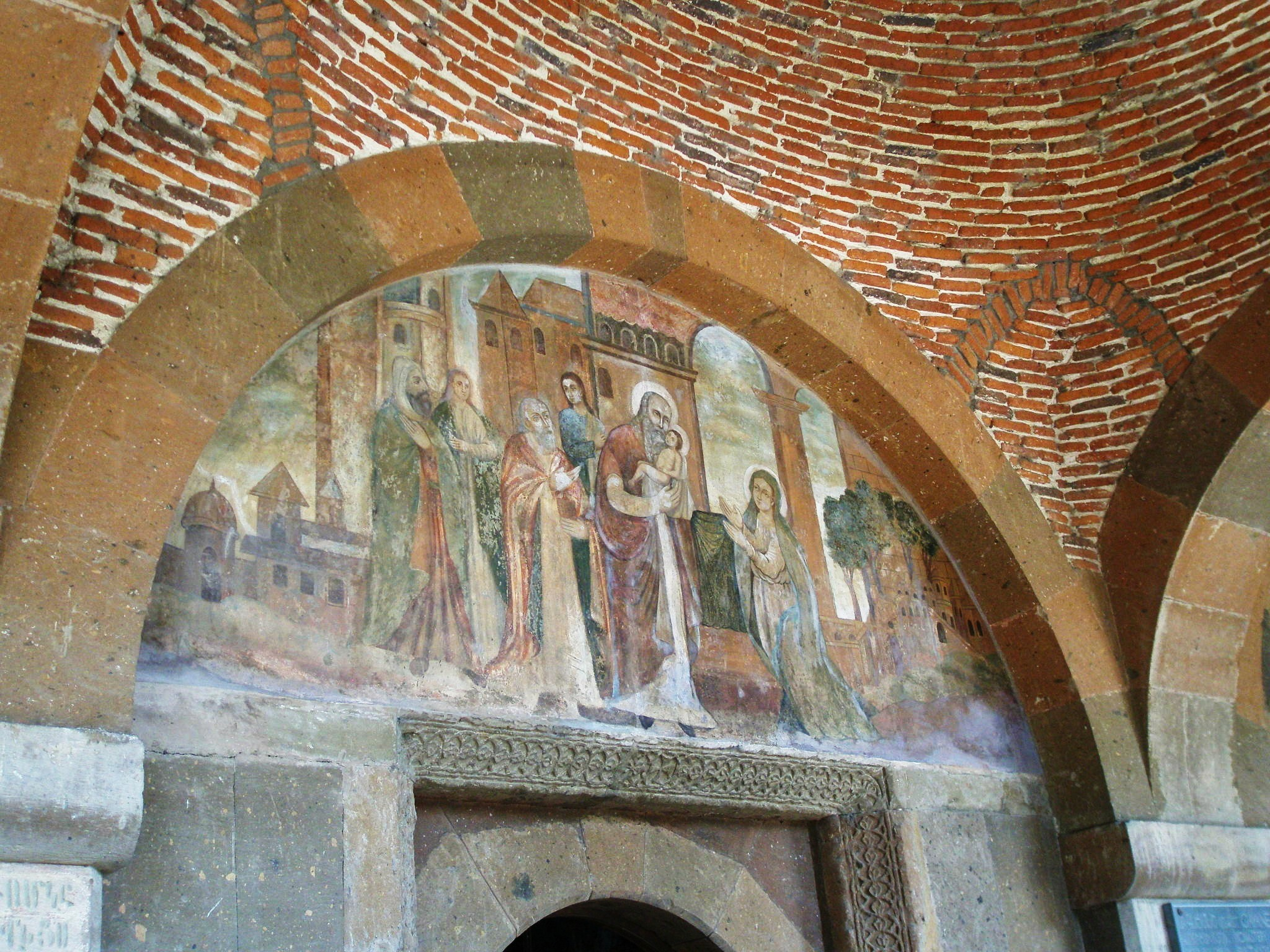 Frescoes on the tympanum above the door.